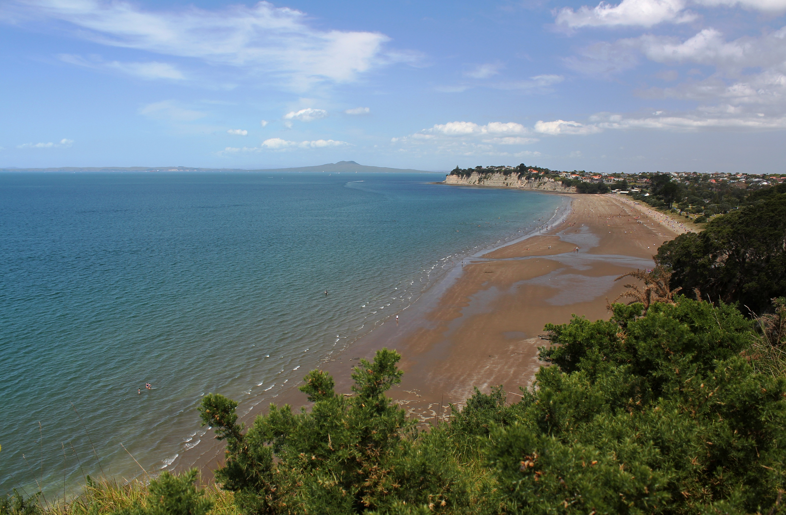 Looking south over Long Bay, on Auckland's North Shore, New Zealand. The low cone of Rangitoto Island is visible in the distance, and Motutapu Island to its left.